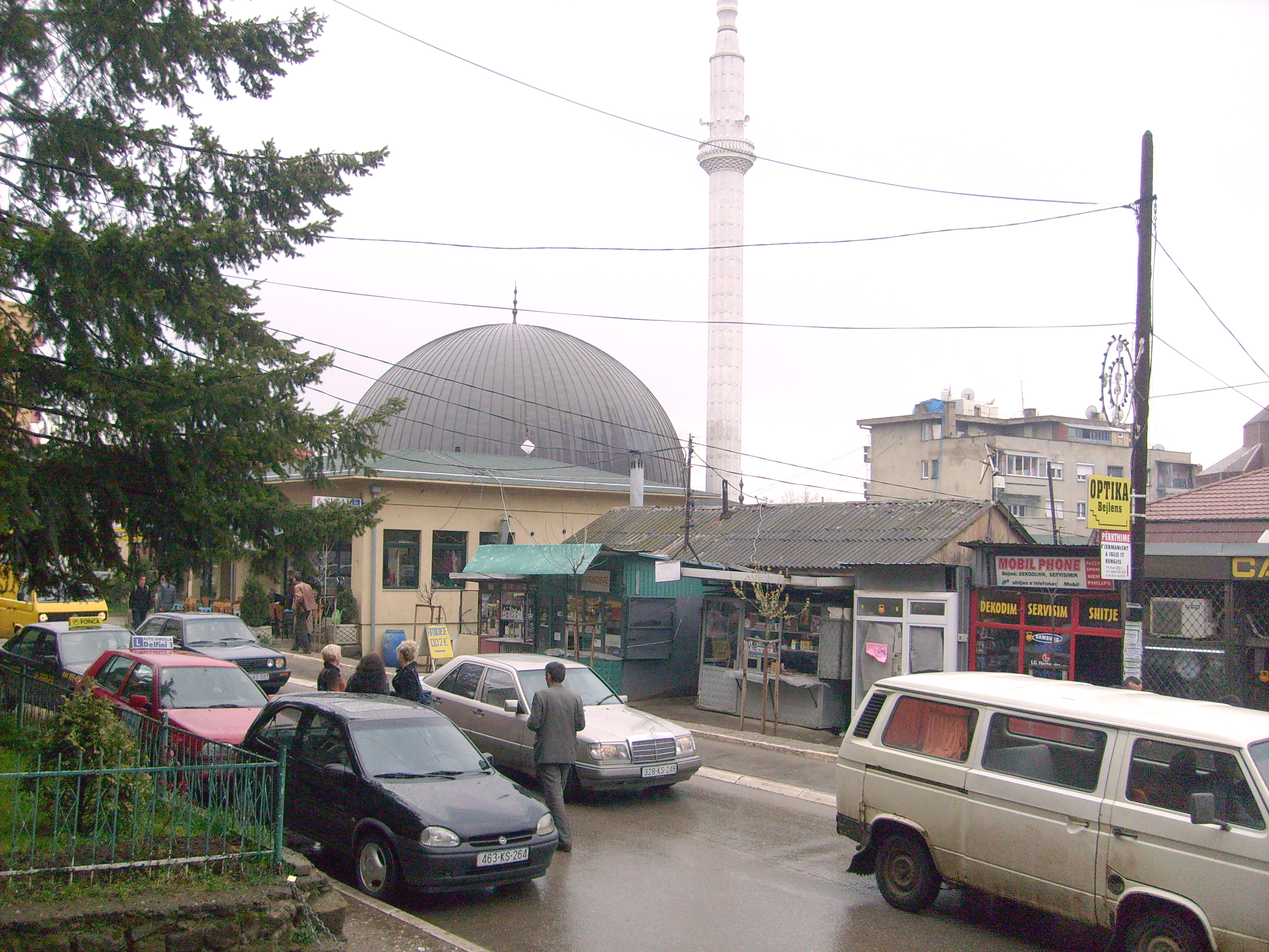 Front of the House of Culture in the city centre. (Vucitrn / Republic of Kosovo)